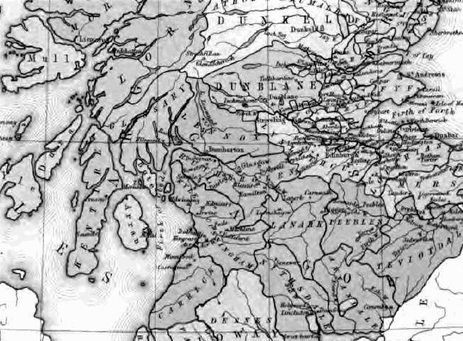 Map of medieval dioceses in southern Scotland